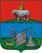 Ochansk (Perm krai), coat of arms (1783)